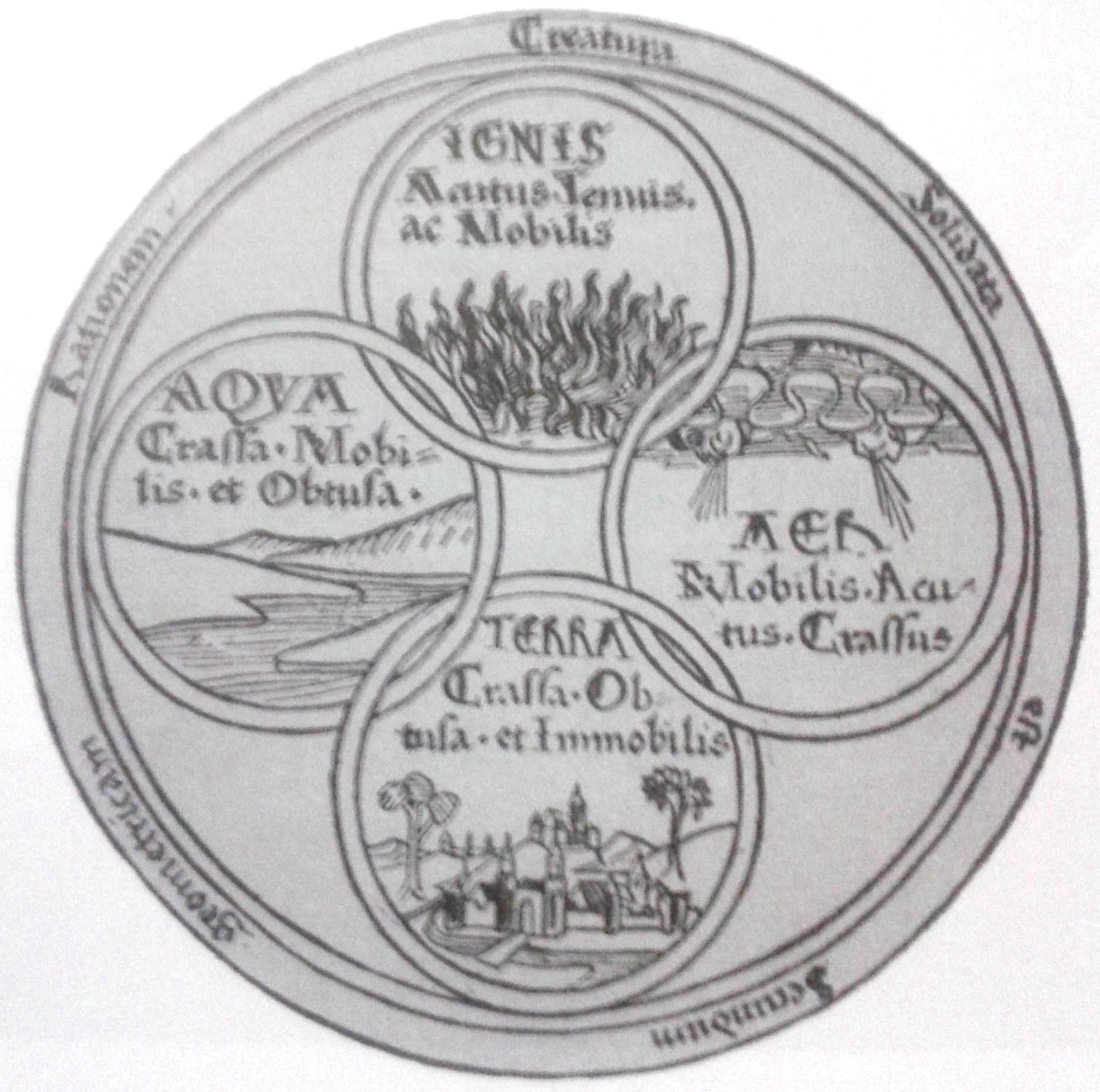 Four elements at de responsione mundi et de astrorum ordinatione